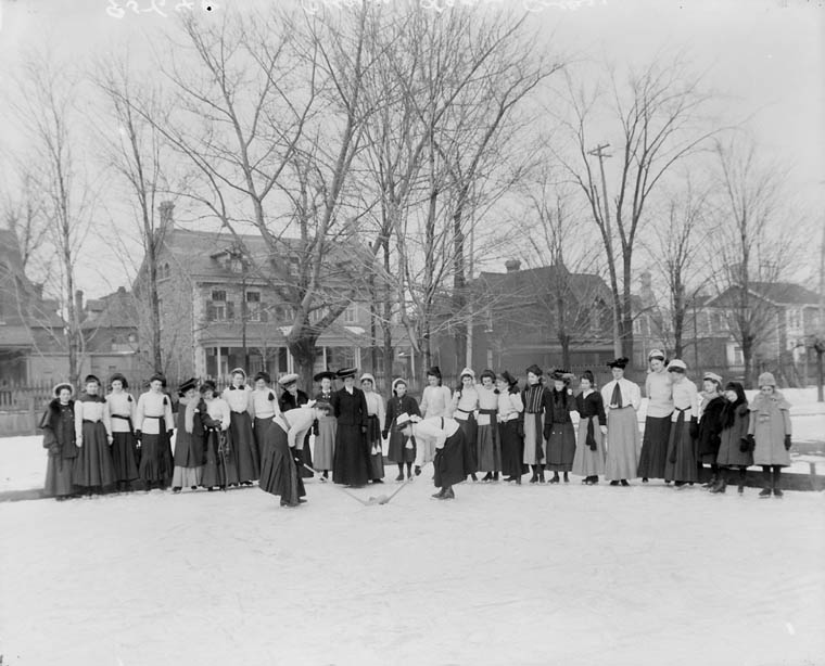 Ottawa Ladies' College group taking a faceoff